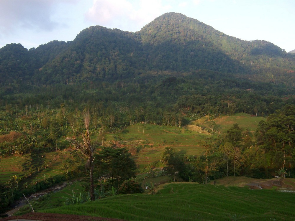 Gunung Tilu protection forest, of Kuningan, West Java.